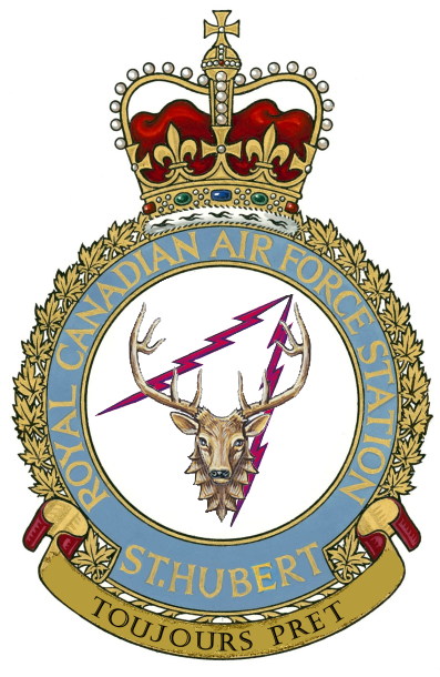 Crest of RCAF Station St Hubert QC